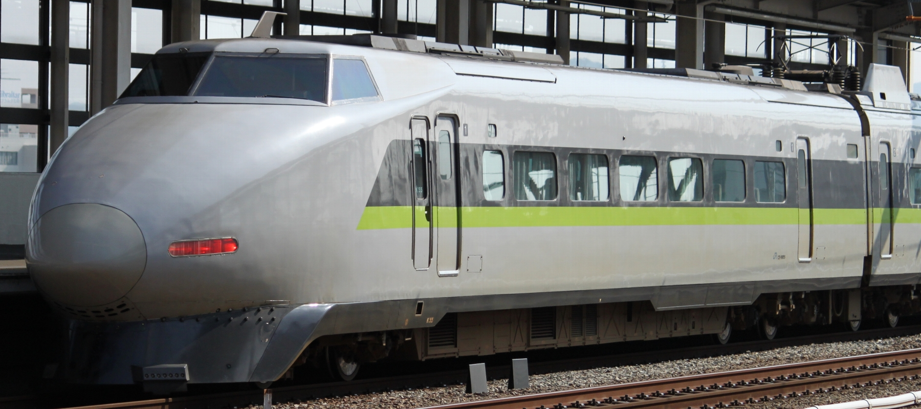 Shinkansen series 100(121-5055) in Himeji Station